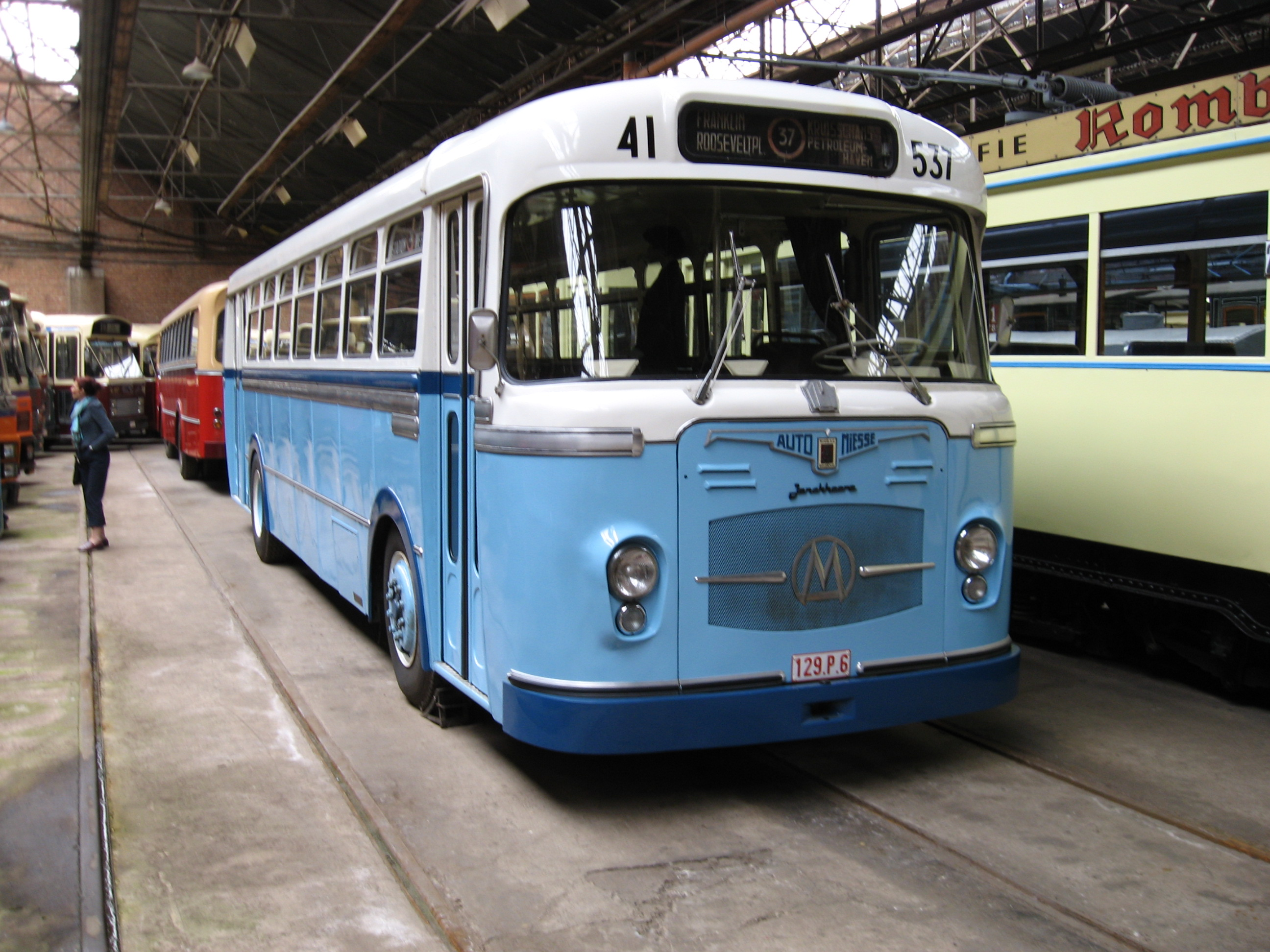 Bus in the "Vlaams Tram- en Autobusmuseum".